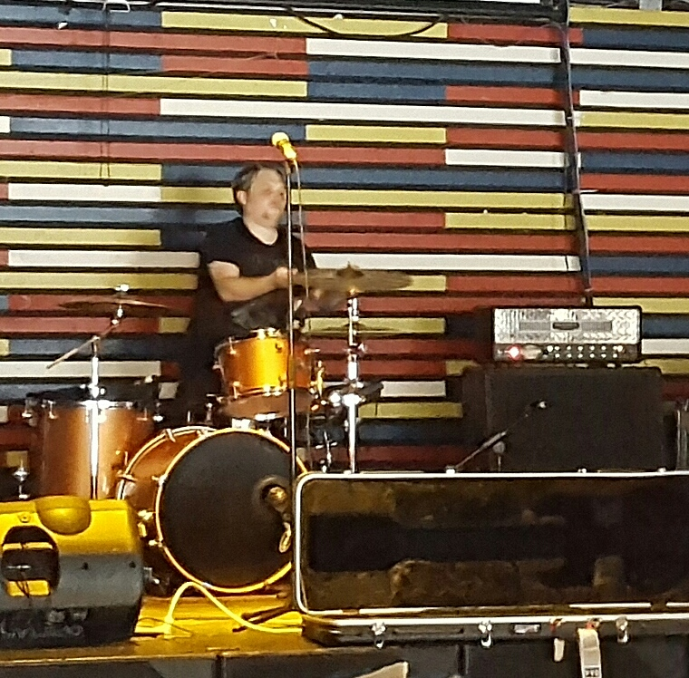 Daughters photographed in Montréal, Québec, Canada inside the bar Ritz PDB.